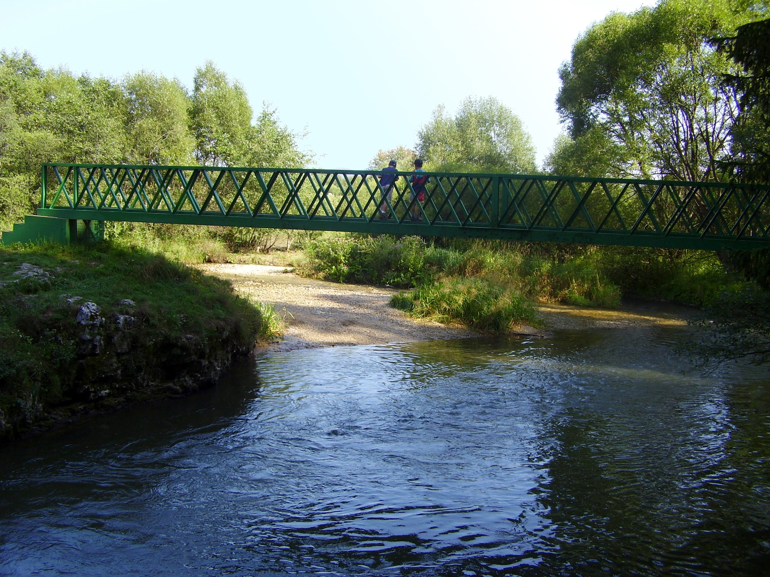 Footbridge in Hrdlo Hornádu, over Hornád river in Slovak Paradise National Park.